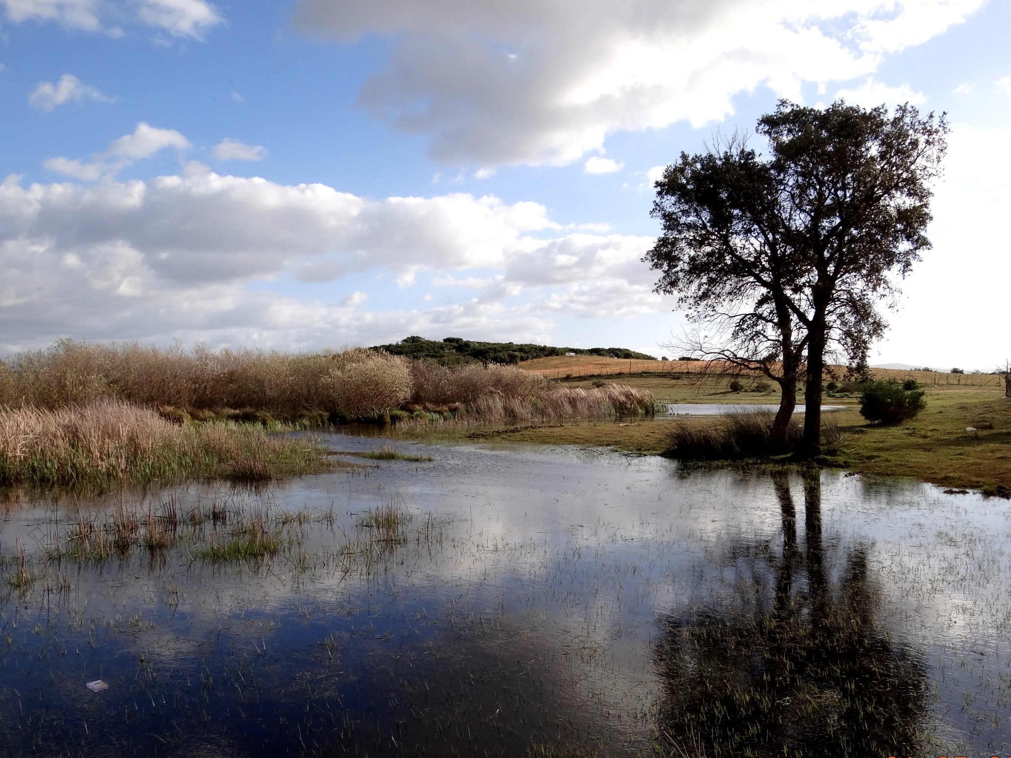 Somewhere in the National Park of El-Kala